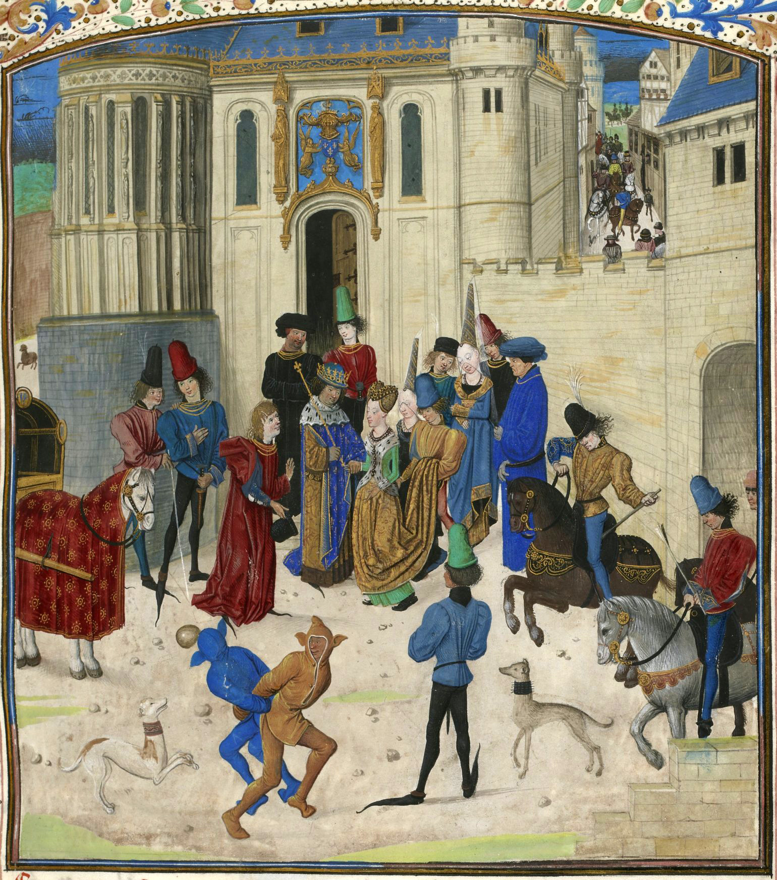 Arrival of Isabella of Bavaria in Paris, Jean Froissart, Chroniques, Gelgique (Bruges), 15th century, Paris, BnF, département des Manuscrits, Français 2646, fol.6.